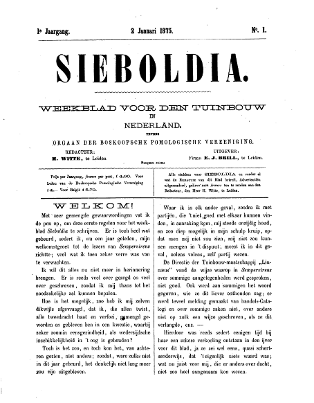 Sieboldia, weekblad voor den tuinbouw in Nederland tevens orgaan der Boskoopsche Pomologische Vereeniging, E.J.Brill, Leiden, 1875, page 1. Editor: H. Witte. Weekly for horticulture, and organ of the Pomological Society of Boskoop.